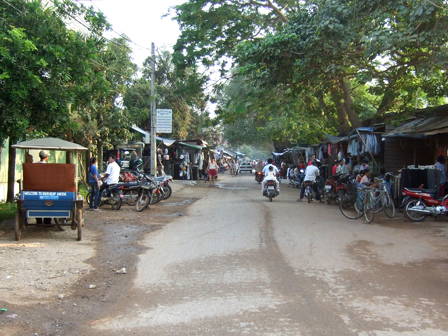 Living near Siem-Reap river, Cambosia